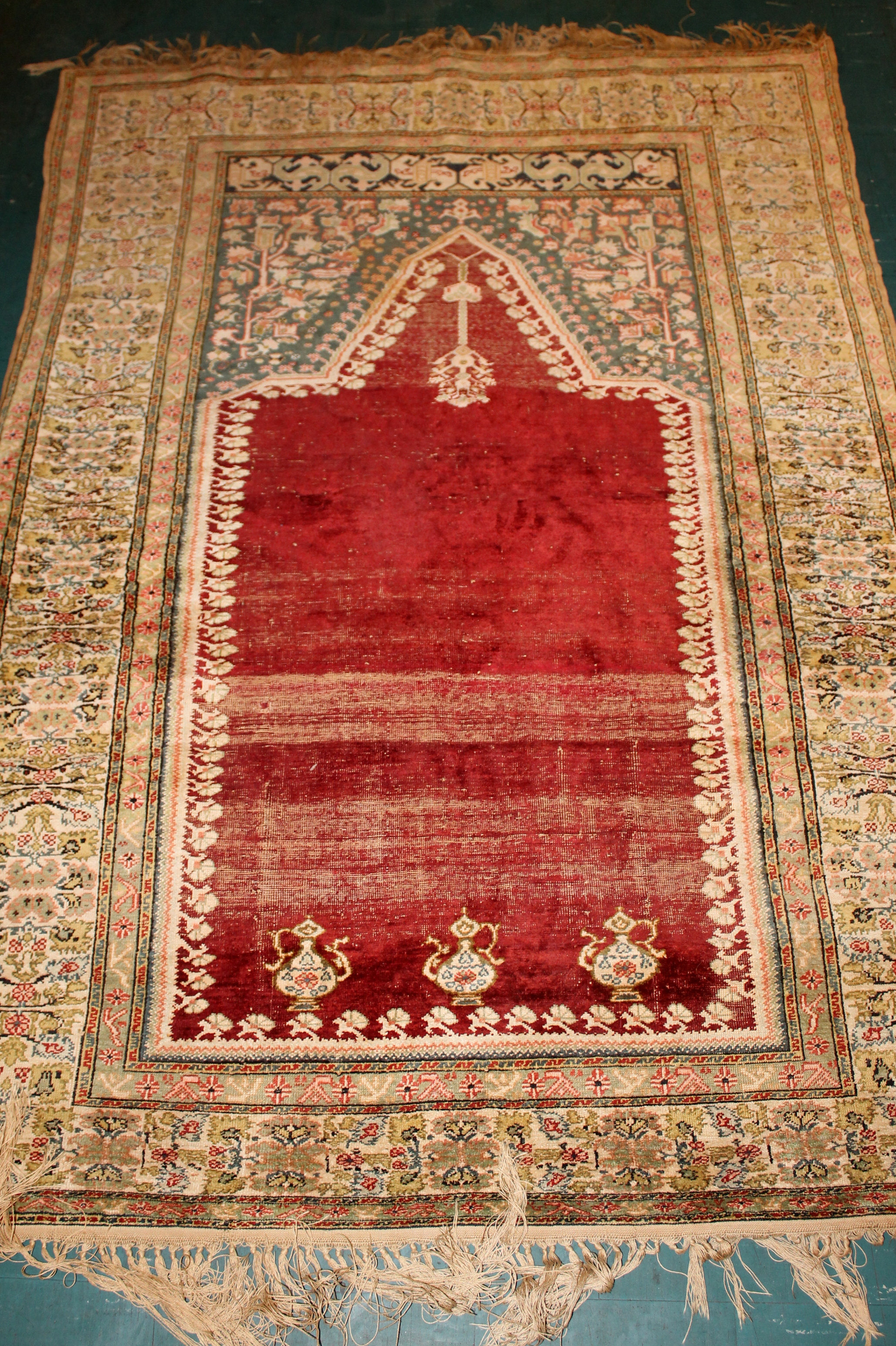 Antique Gheordez Prayer Rug, Mosque with columns and pendant floral lamp design,Kayseri Anatolia Turkey,see here